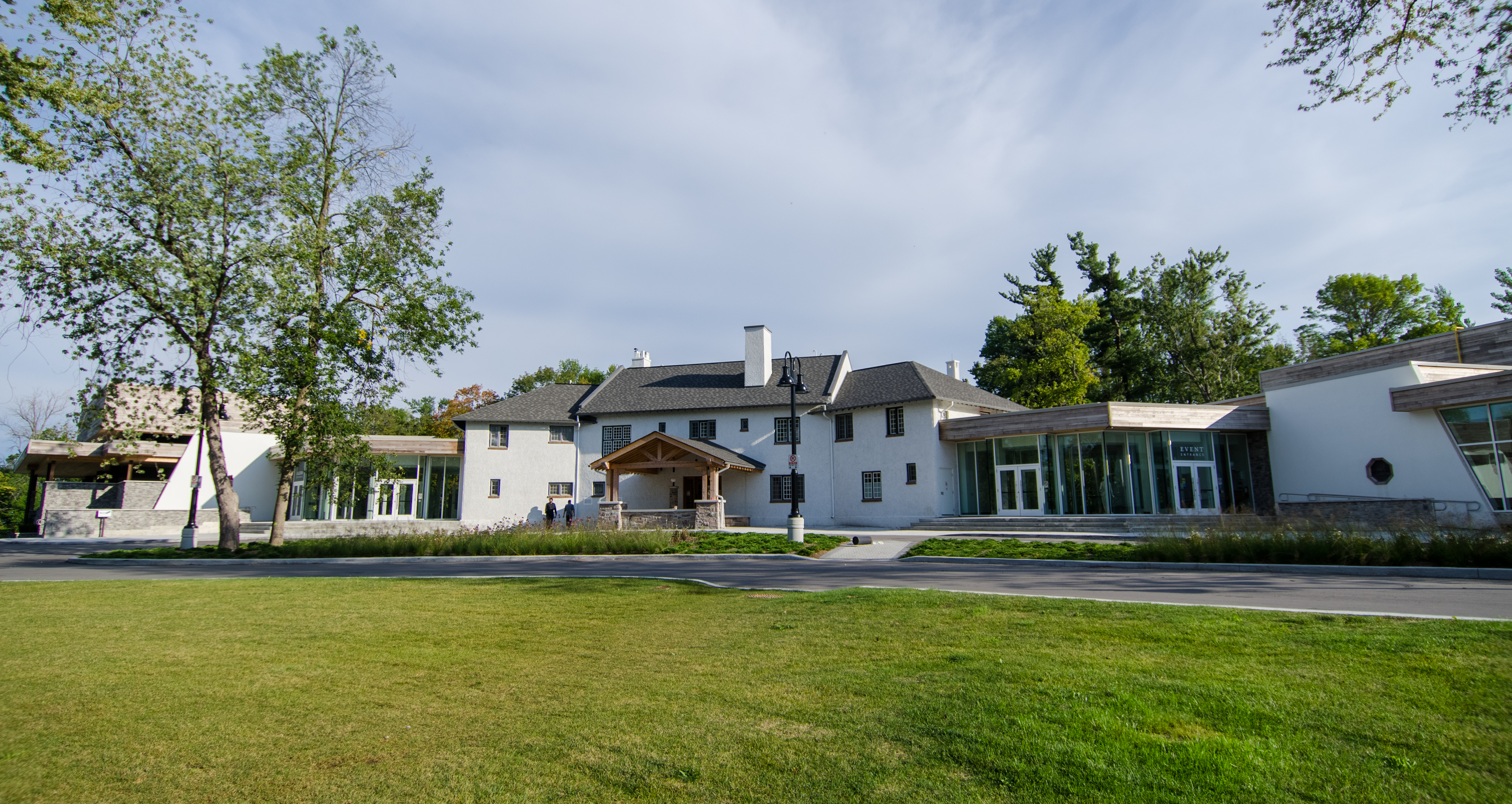 Seen in The Skulls and the Carmilla finale.